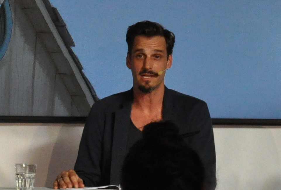 Max von Thun reading Der Sternenmann at Frankfurter Buchmesse 2018